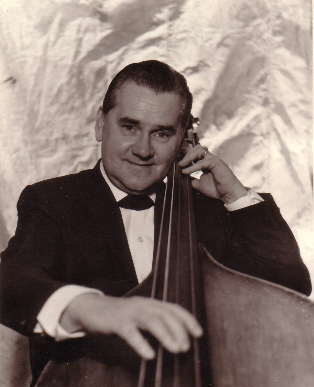 Carl Frederick Tandberg (1910-1988) circa 1940-1950 with his bass guitar